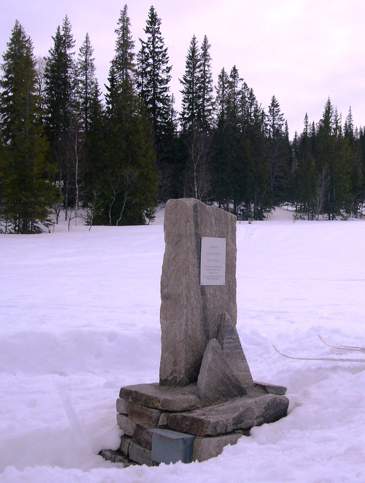 The bauta at the geographical centre of Norway in Ogndal, Steinkjer